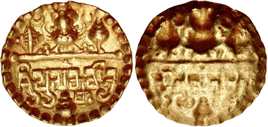 Coin of the king Prasanna